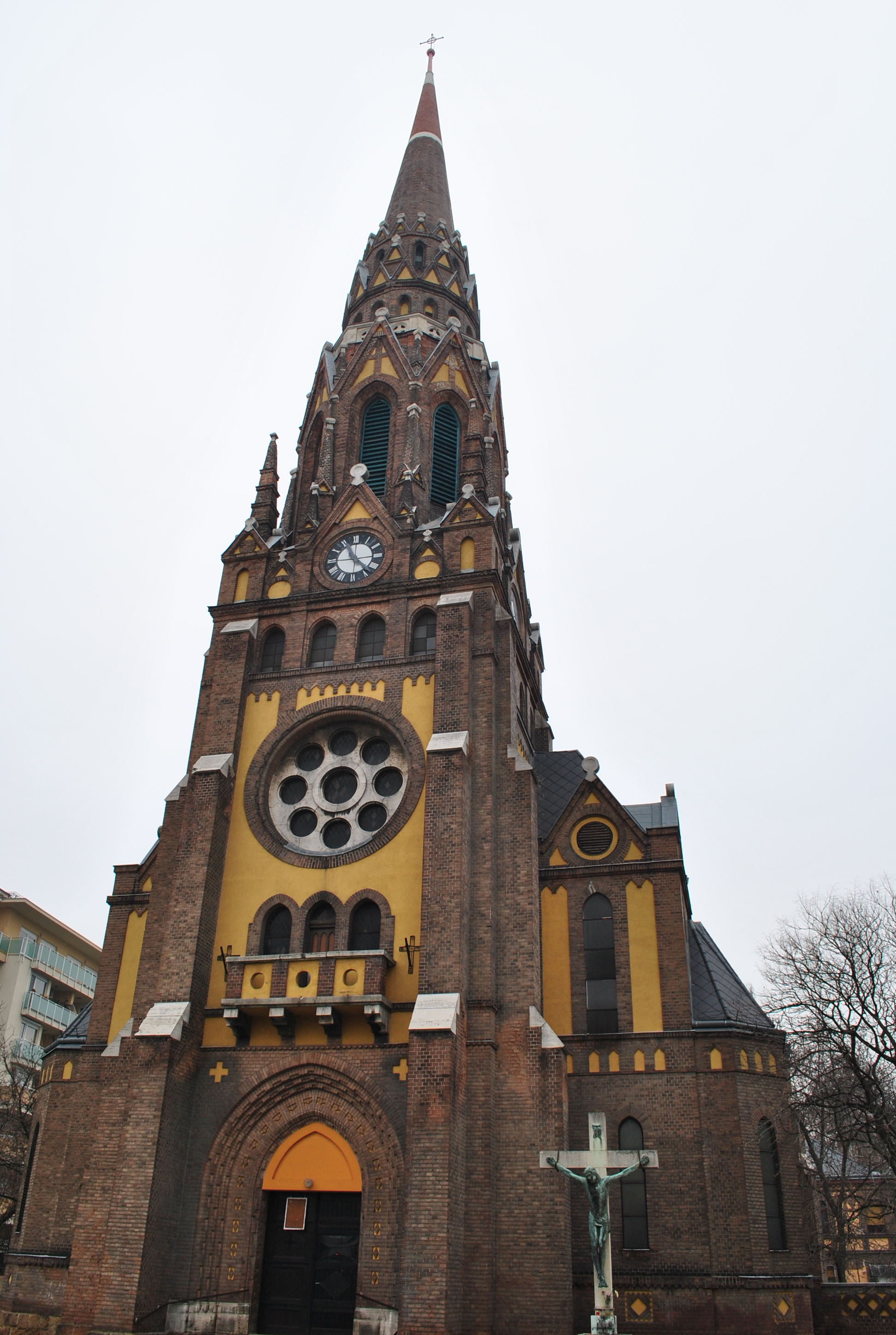 St. Leslie church of Angyalföld